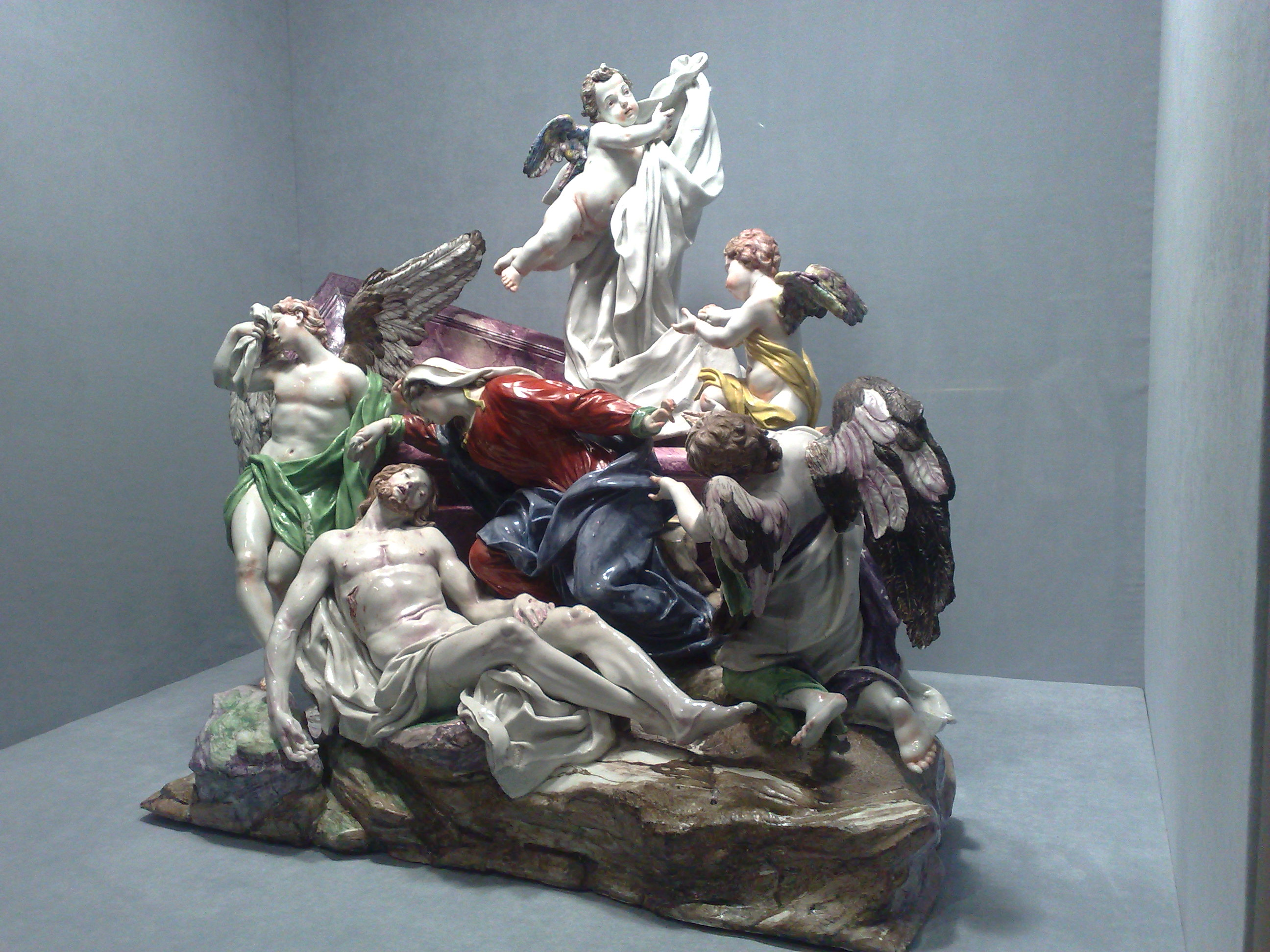 After Massimiliano Soldani-Benzi (Italy, Florence, 1656-1740) The Great Lamentation (Pietà), first modelled circa 1711-13; this example circa 1745 Sculpture, Polychrome porcelain (Florence, Doccia manufactory, 1737 - present), a) 15 1/4 x 26 1/2 x 12 in. (38.74 x 67.31 x 30.48 cm); b) 27 x 28 x 16 in. (68.58 x 71.12 x 40.64 cm) Purchased with funds provided by Neal Castleman and Ellen Hoffman-Castleman by exchange, The Ahmanson Foundation, Antonio Mariani of Antonio's Antiques by exchange, Peter Norton, Robert Looker, Frank E. Baxter, Camilla Chandler Frost, Eli Broad, Mrs. Stewart Resnick, the Iris and B. Gerald Cantor Foundation, Julian Ganz, Jr., Mrs. Harry Lenart, Daniel N. Belin, Daniel N. Belin in honor of Walter L. Weisman, Mrs. Jacob Y. Terner, John F. Hotchkis, Mrs. Judith Gaillard Jones, Christopher V. Walker, Mrs. James Porter Fiske by exchange, and Willard G. Clark (M.2001.78a-b) Wikipedia Loves Art at the Los Angeles County Museum of Art This photo of item # M.2001.78a at the Los Angeles County Museum of Art was contributed under the team name "yokim" as part of the Wikipedia Loves Art project in February 2009. Los Angeles County Museum of Art The original photograph on Flickr was taken by yonghokim—please add a comment to the original Flickr page whenever a use has been made on Wikipedia or another project. Project galleries on Flickr: this institution, this team